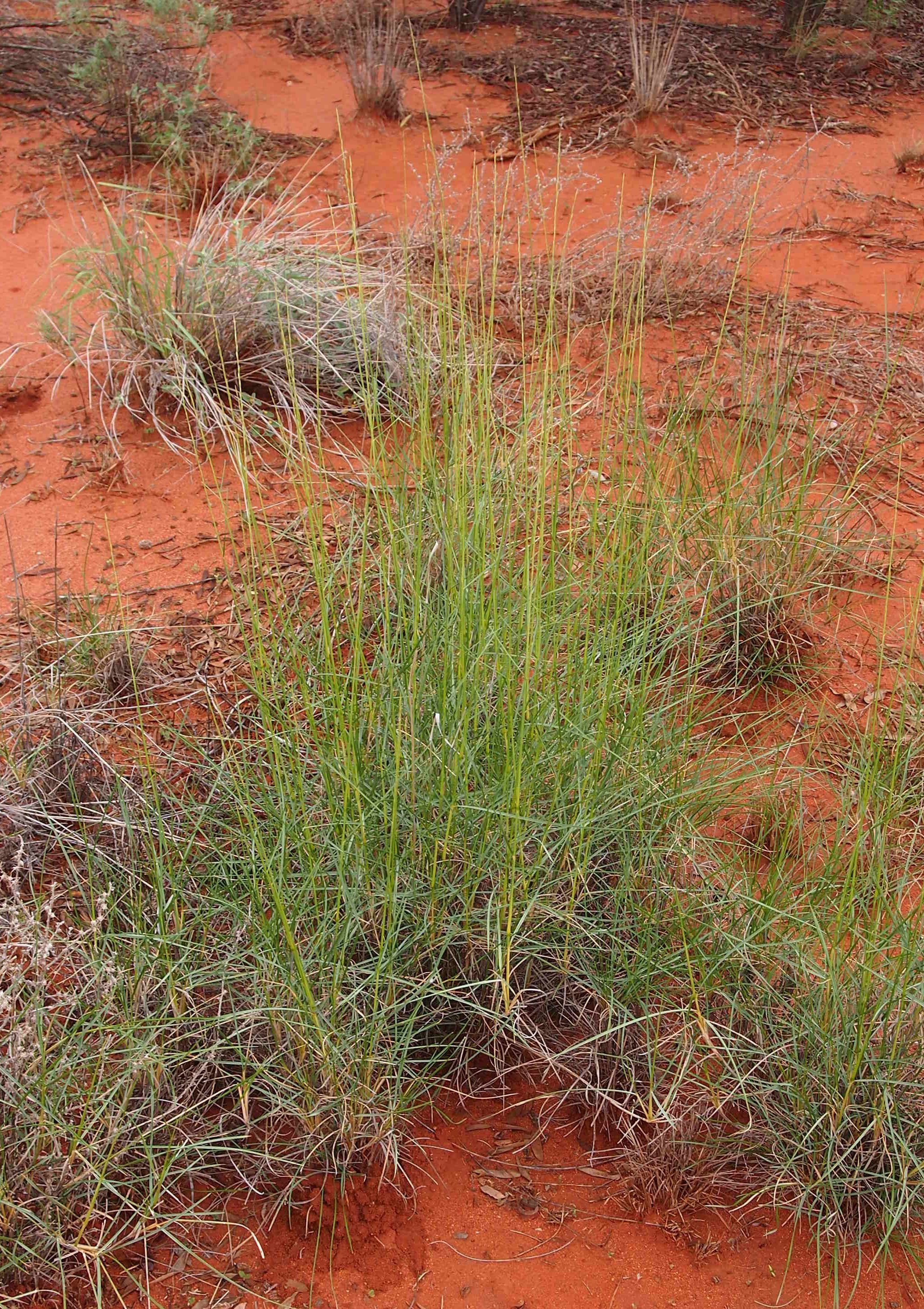 Triodia pungens